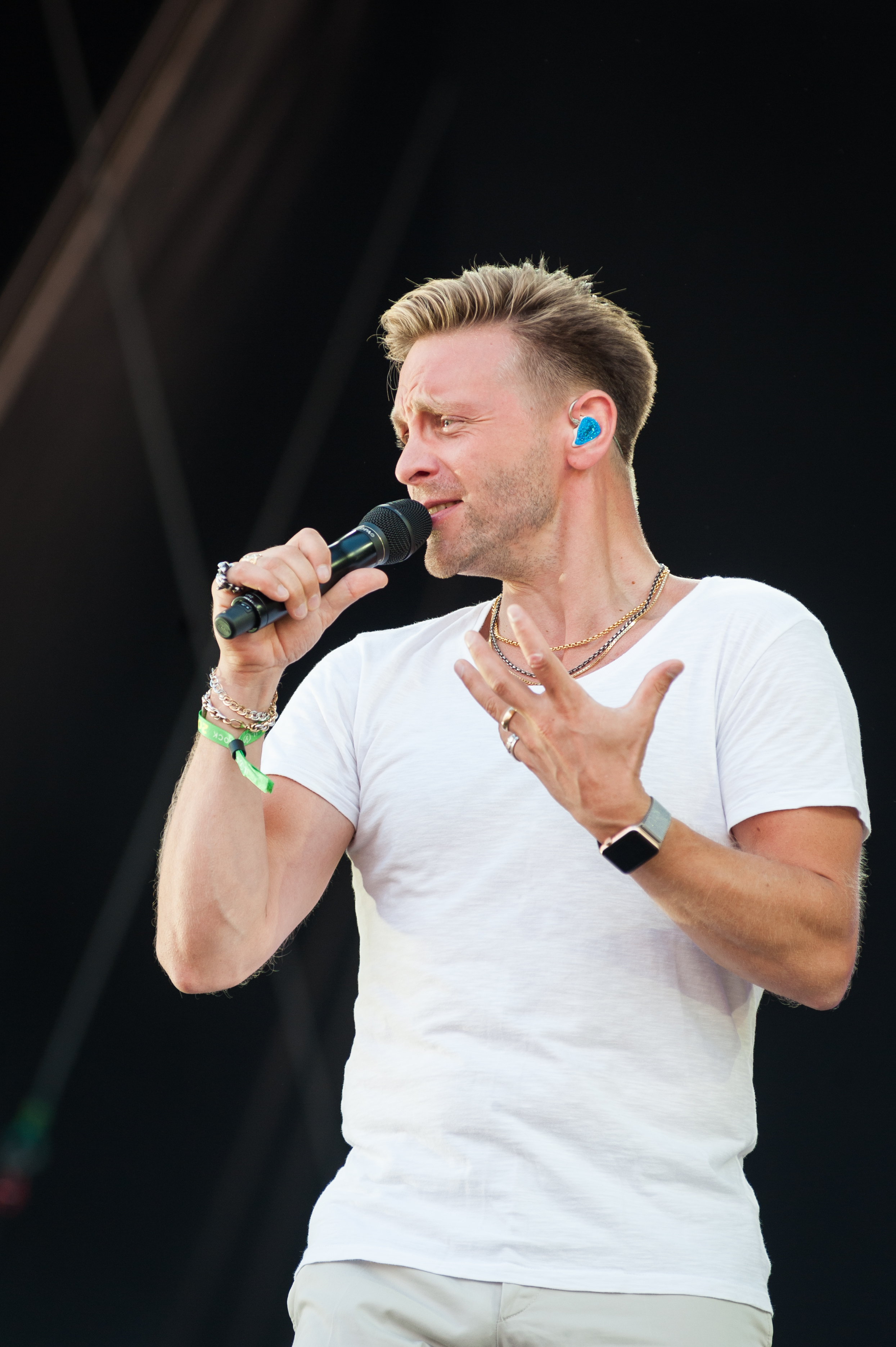 Finnish vocalist Reino Nordin performing at the 2018 Ilosaarirock festival in Joensuu, Finland.